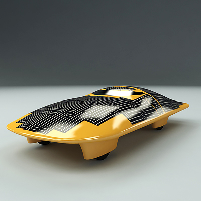 Ned, solar car, debuted in 1999 World Solar Challenge